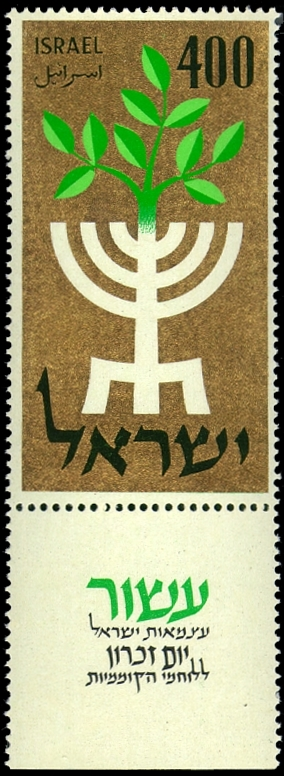 Tenth Independence Day stamp - 400 mil. Inscription on tab: "The Tenth Independence Day", "Memorial Day for the Fighters for Independence"